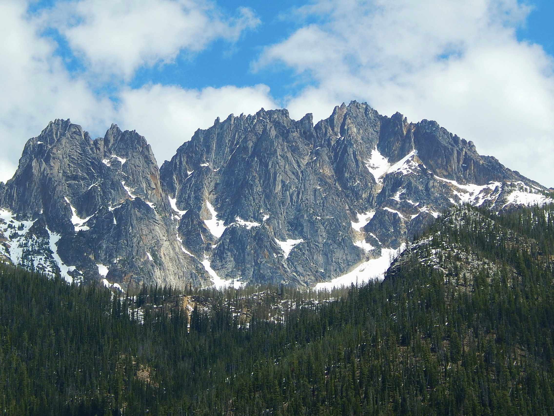 Silver Star Mountain seen from North Cascades Highway 20, also Wines Spires to left